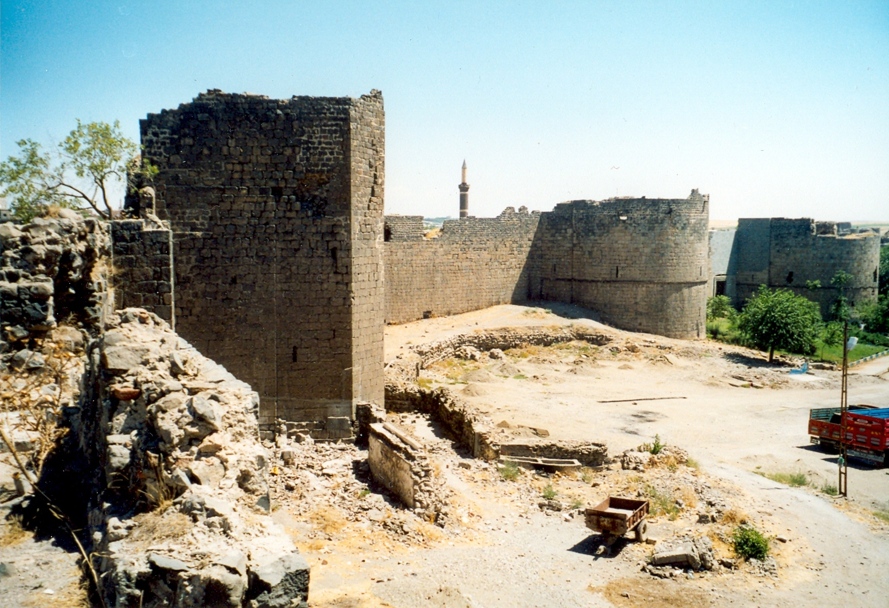 City walls of Diyarbakır, Turkey.